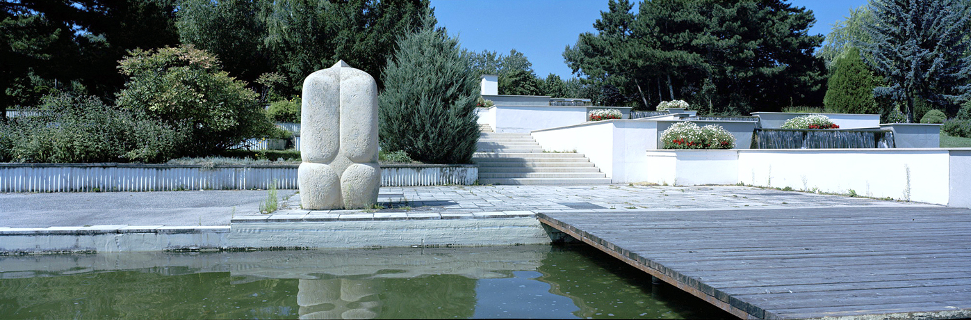 Janez Lenassi: Abstract Composition, 1959